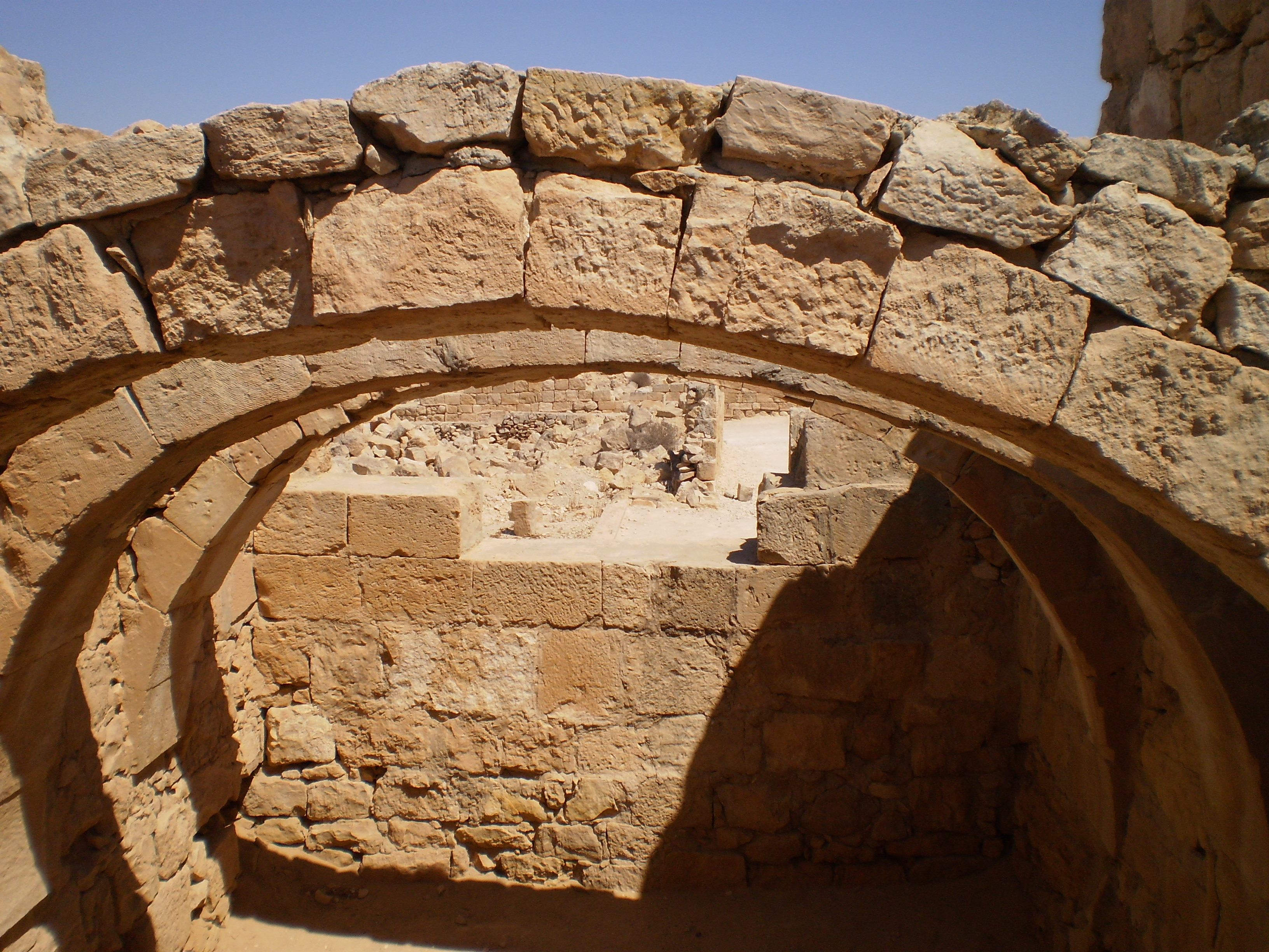 Mamshit - Beit Haamidim